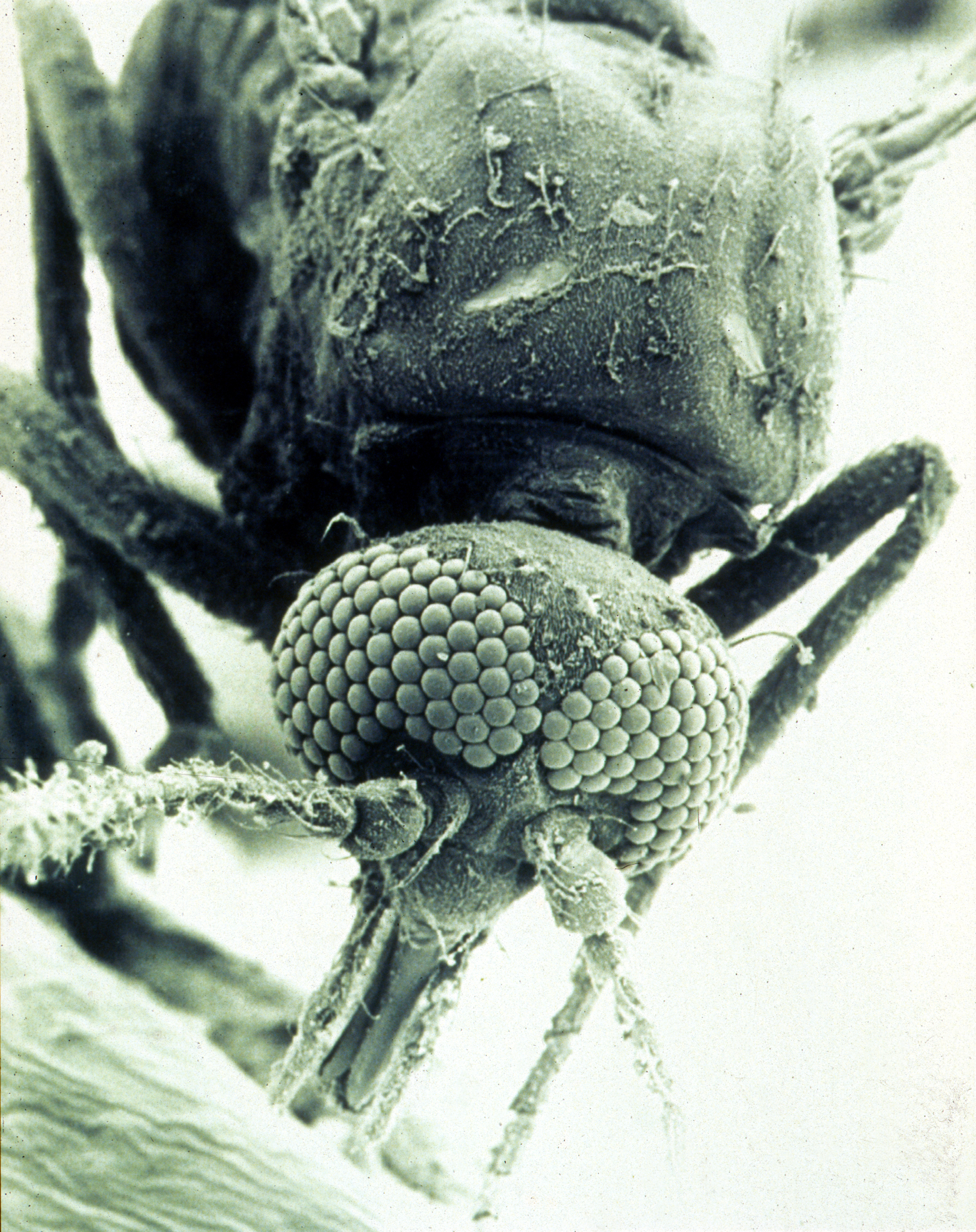 Scanning electron micrograph of a biting midge (Culicoides brevitarsis). This insect is a vector of bluetongue virus, a viral infection of ruminants. Image produced by Electron Microscopy Unit, Australian Animal Health Laboratory.